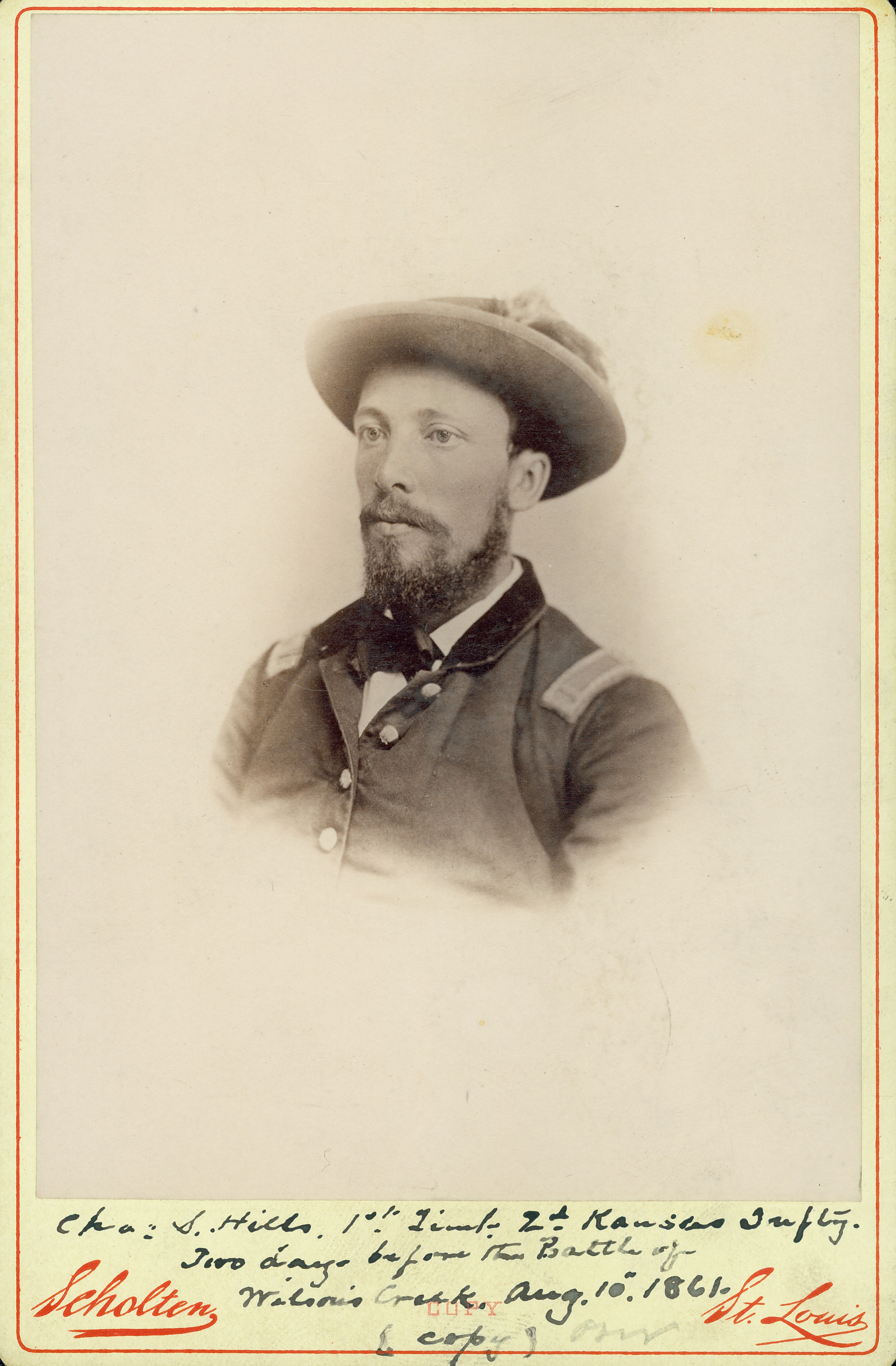 Bust portrait of Lieutenant Colonel Charles S. Hills in uniform and a hat, and turned to the left. "Cha. S. Hills. 1st Lieut. 10th [?] Kansas Infty. Two days before the Battle of Wilson's Creek. Aug. 10. 1861." and "(copy)" (written below image). "Scholten," "COPY," and "St. Louis" (printed below image).Title: Charles S. Hills, Lieutenant Colonel, 10th Kansas Infantry, Brevet Colonel (Union).